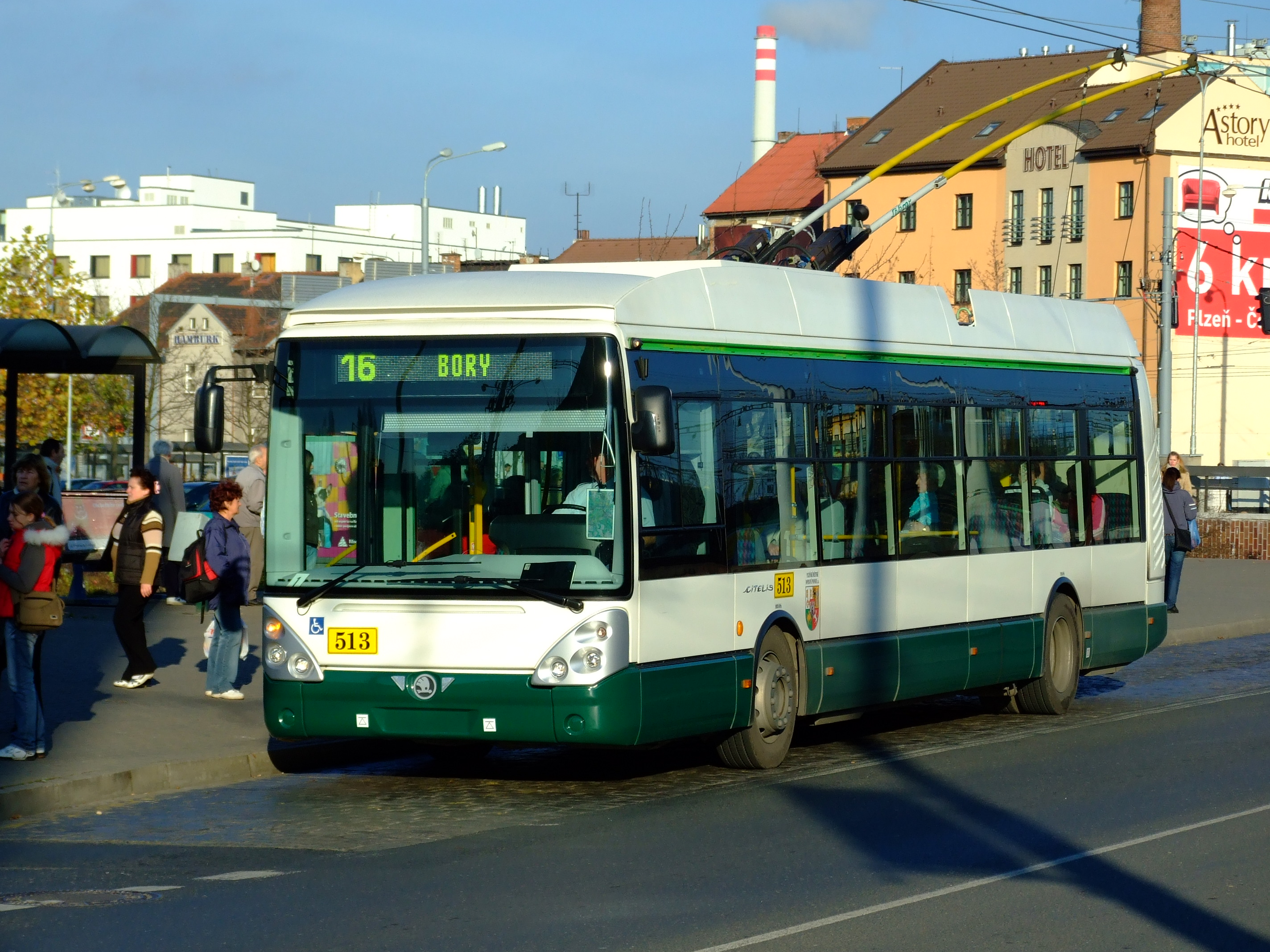 Public transport in Pilsen, CZhelp